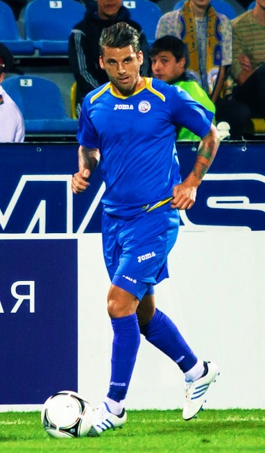 David Michael Bentley